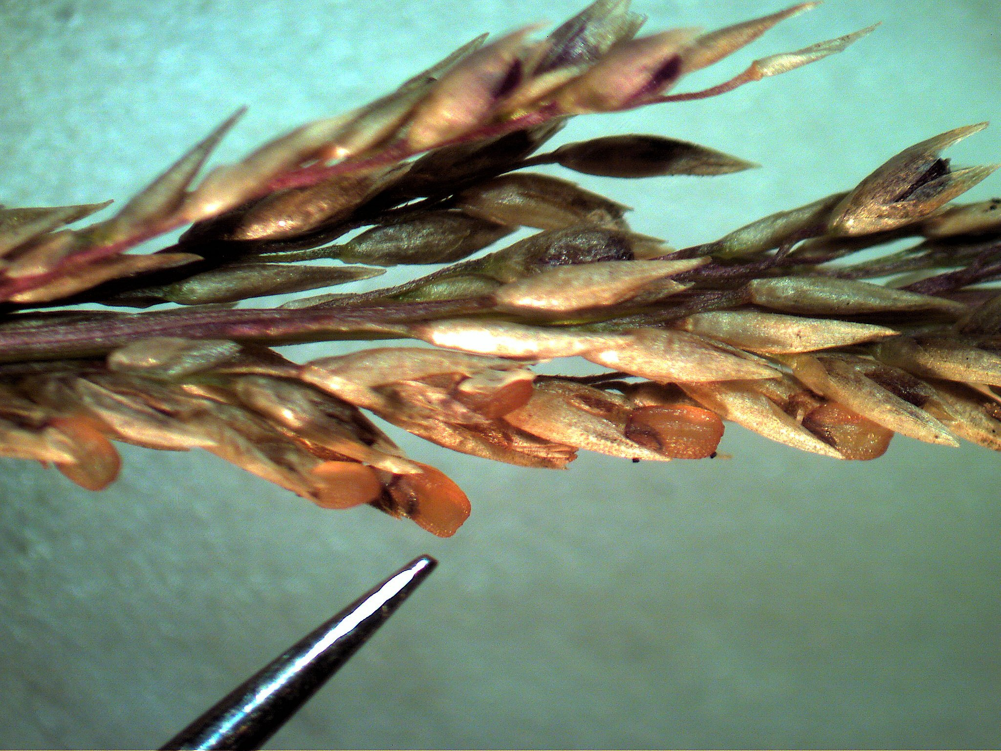 Seeds are very small and about 1 mm long and sticky when wet.